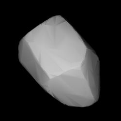 3D convex shape model of 874 Rotraut, computed using light curve inversion techniques. J. Hanuš, J. Ďurech, M. Brož, B. D. Warner (June 2011). "A study of asteroid pole-latitude distribution based on an extended set of shape models derived by the lightcurve inversion method". Astronomy and Astrophysics 530: A134. ISSN 0004-6361. arXiv